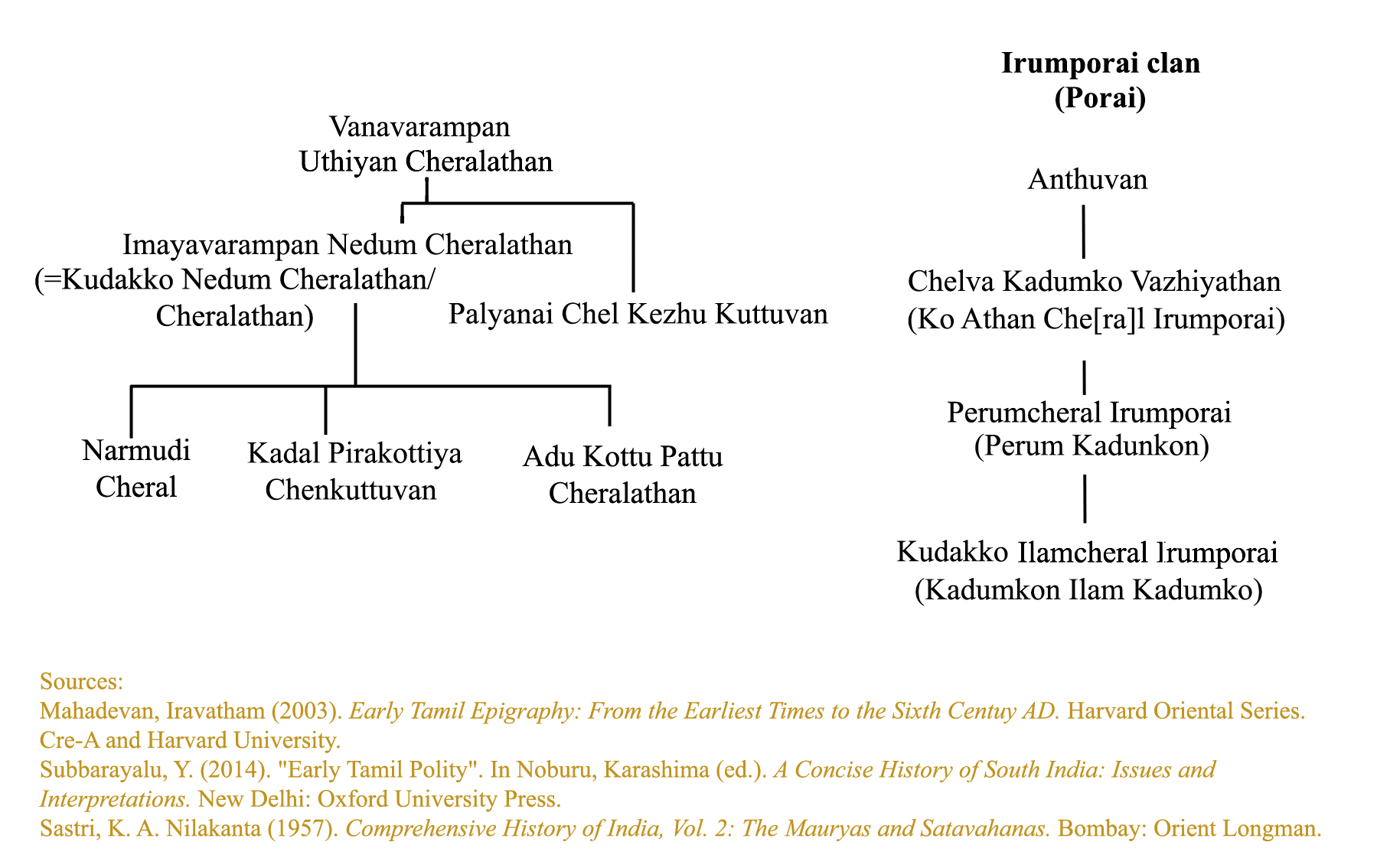 The family tree of the Chera dynasty (India) based on the Tamil Sanga literature. It is known that the monarchs ruled in the first two centuries of the Christian era. Only princes shown in the shade of orange-yellow were crowned as "kings" (Reference: A Survey of Kerala History by A. Sreedhara Menon)